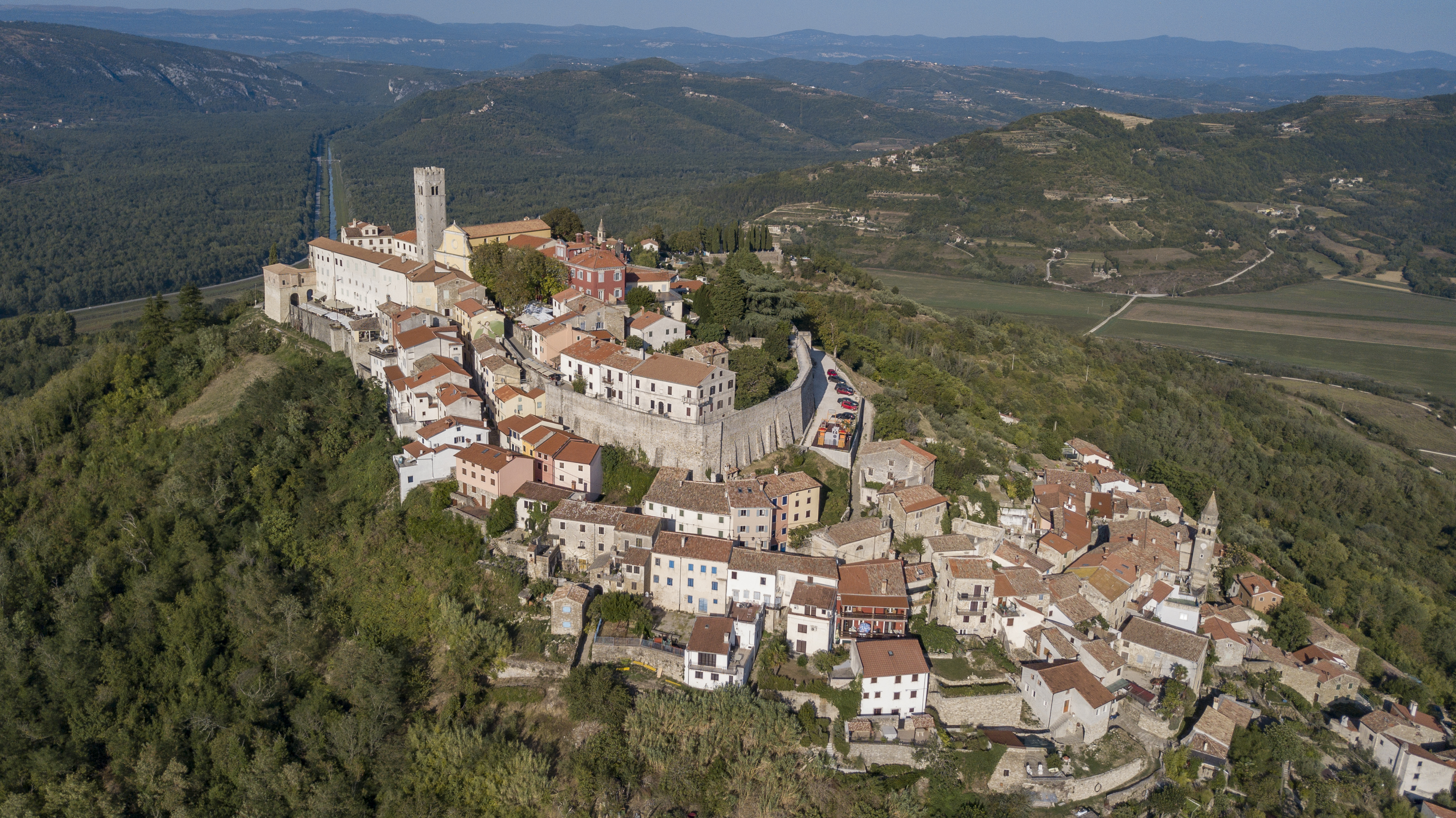 Aerial view of Motovun, Croatia